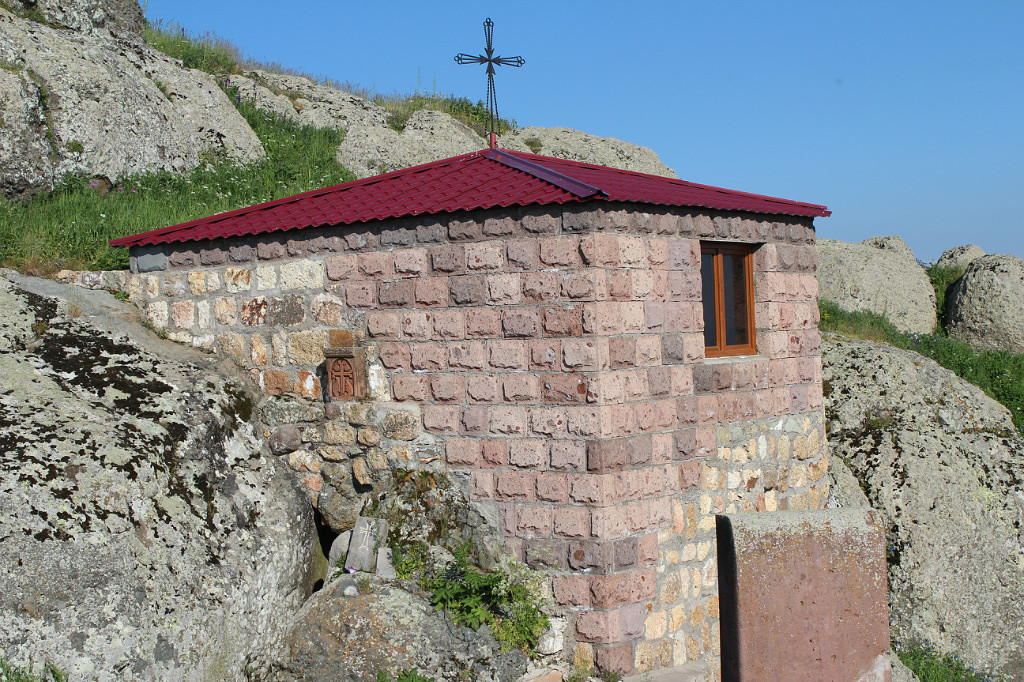 Sarchapet